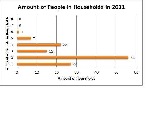 A Graph showing the amount of people in households using 2011 census data